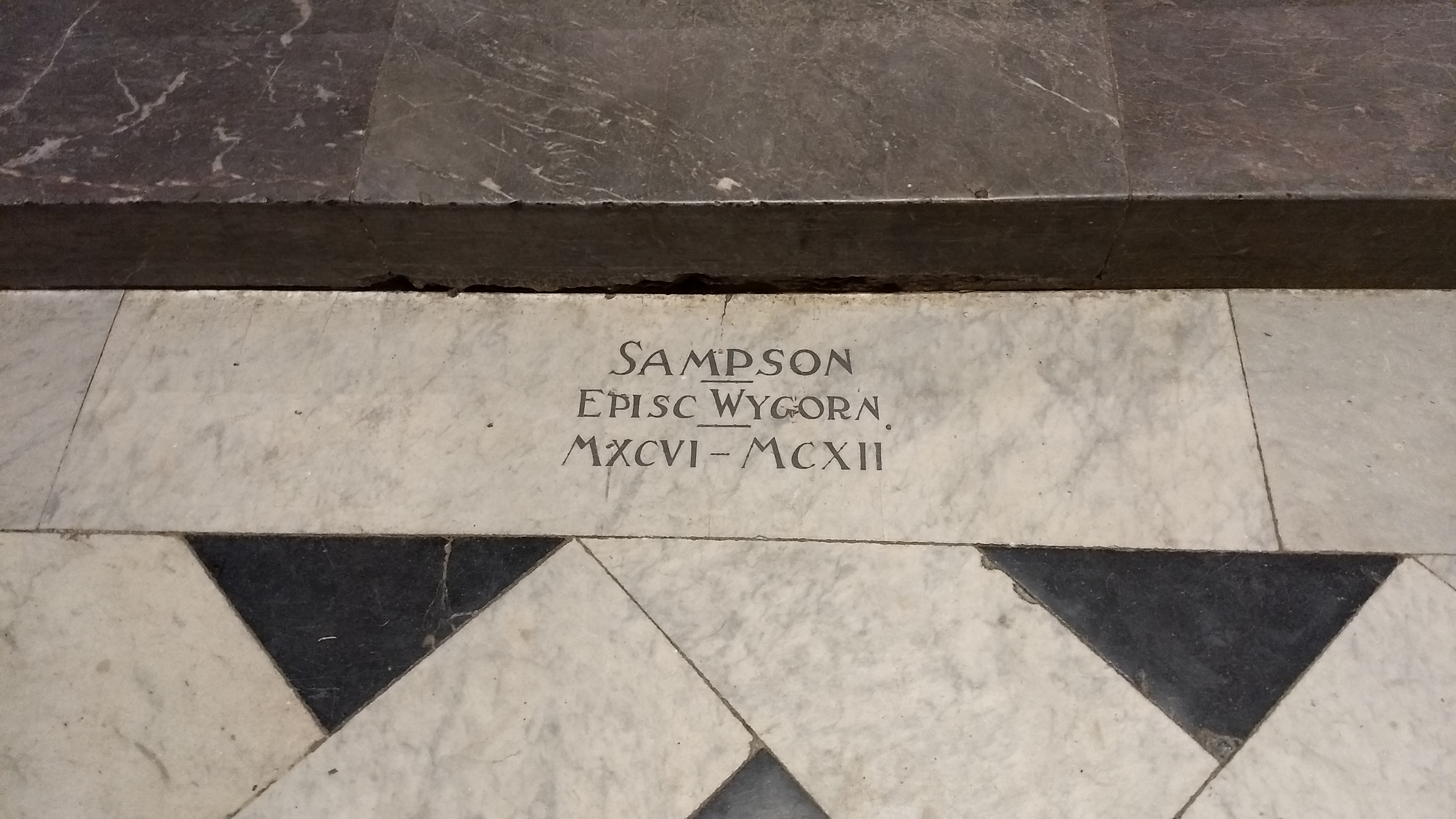 The tomb / grave marker of Sampson Bishop of Worcester, marked on the marble floor in the centre of Worcester Cathedral